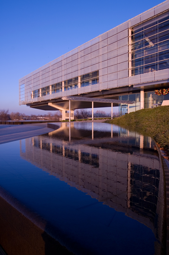 William J. Clinton Presidential Center and Park